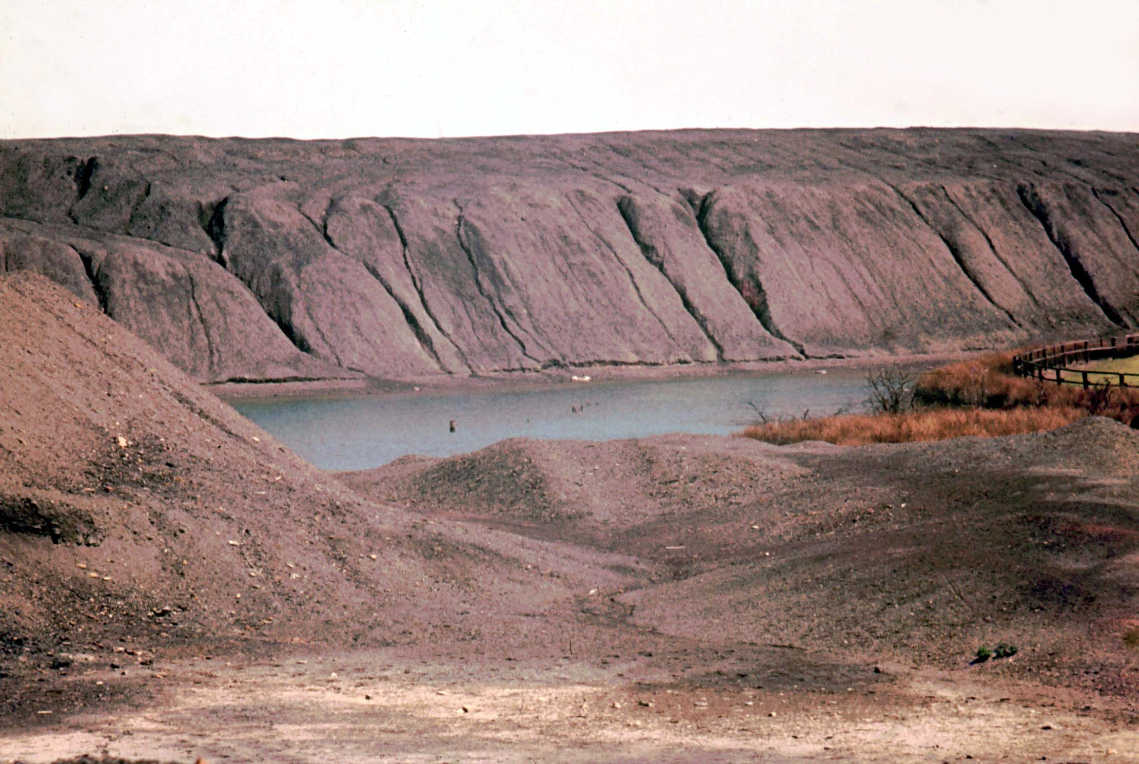 Gin Pit rucks 1974 Spoil heaps riven with gullies and a deep 'flash' make this scene from 1974 completely unrecognisable now. This area of former mining waste between Higher Folds and Gin Pit village has long since been landscaped.